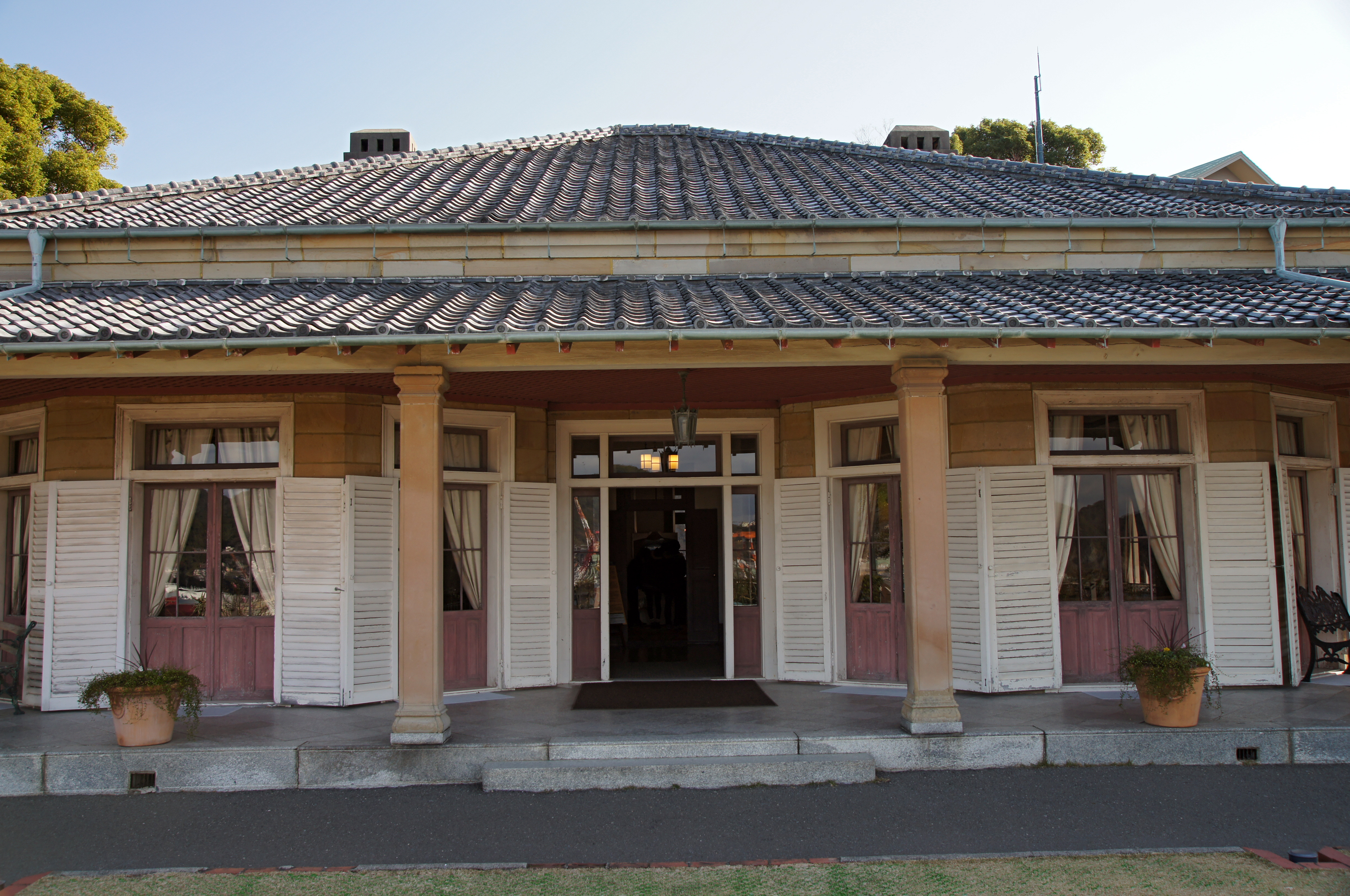 Ringer House in Glover Garden, Nagasaki, Nagasaki prefecture, Japan